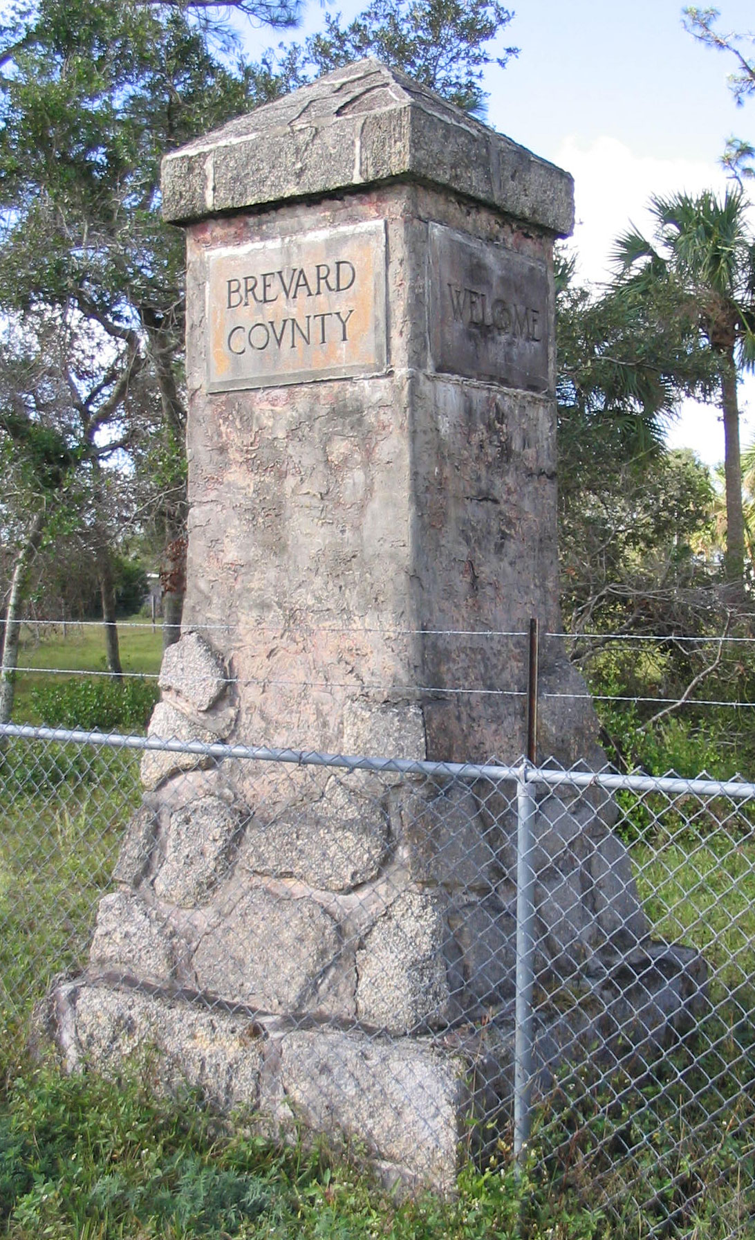 A monument welcoming motorists to Brevard County, Florida on US 1 at the Volusia County line. The other side says COME/AGAIN. Monuments like this and even arches over the road were put up by counties in the early 1900s when roads were improved. This specific one probably used to be about a mile east along the old Dixie Highway (now Dixie Way), and would have been moved when the new road was built. Taken November 28, 2004 by User:SPUI.